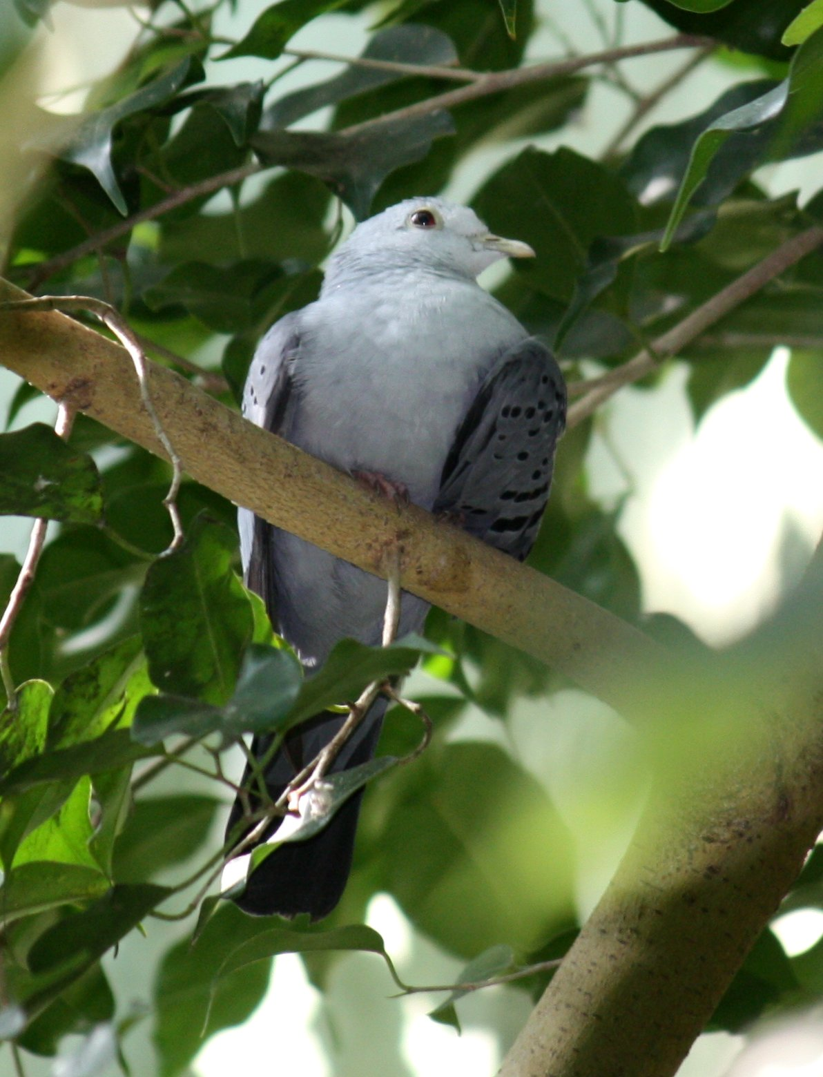 Blue Ground Dove "Claravis pretiosa"